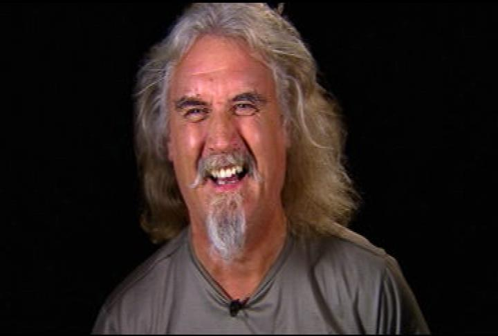 Billy Connolly in Fuck (film)